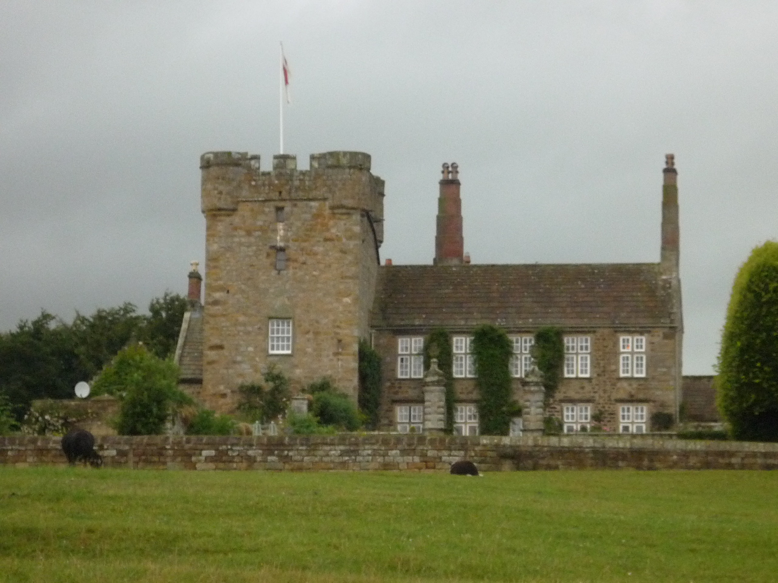 Halton Castle near Corbridge, Northumberland, England. More images